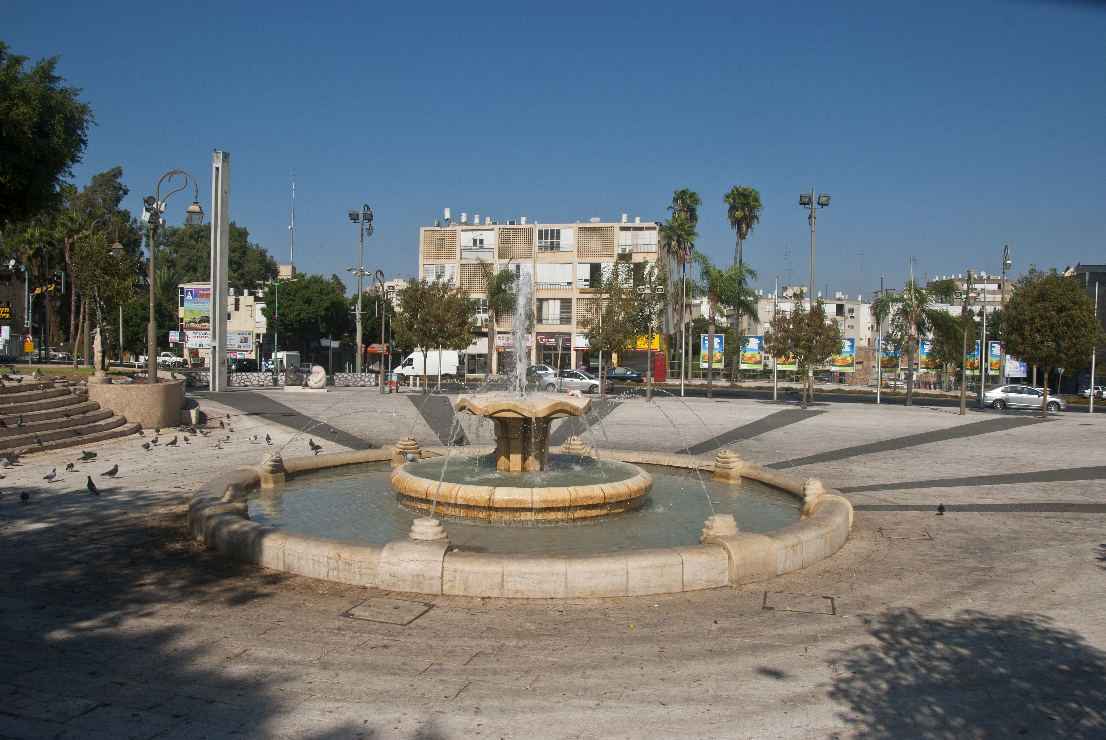 Founders' Square in central Petah Tikva, Israel